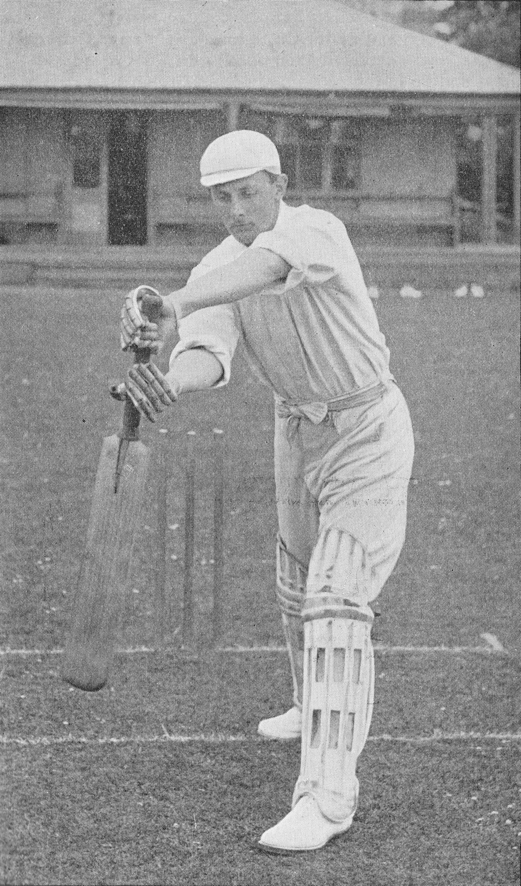 "N. F. Druce off-driving."